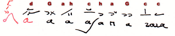 Enechema ἅγια νανὰ aus dem Codex Athous Dionysiou 570, fol. 21r.